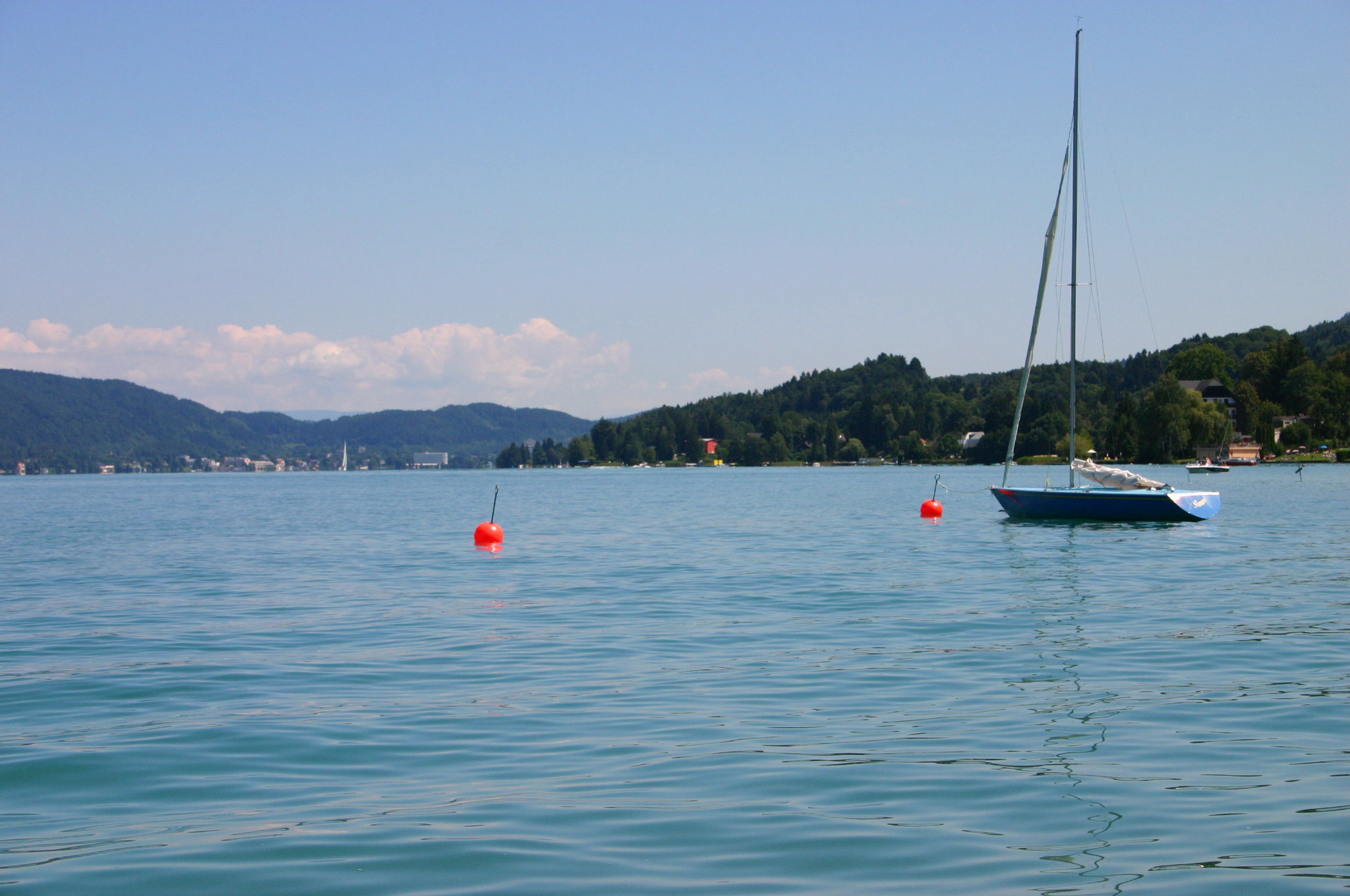 Woerthersee viewed towards Poertschach